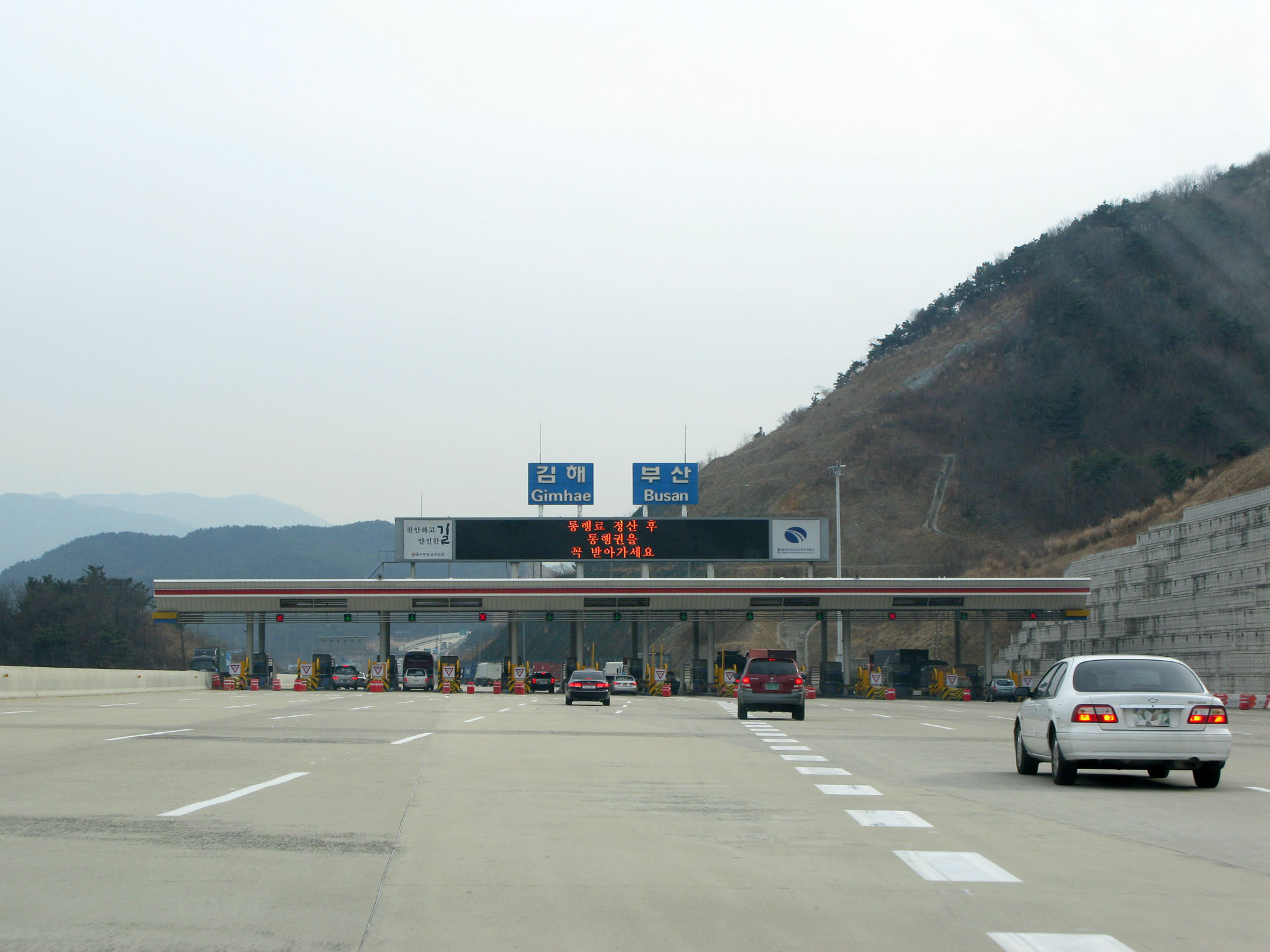 Daegu-Busan Expressway Gimhae·Busan TG